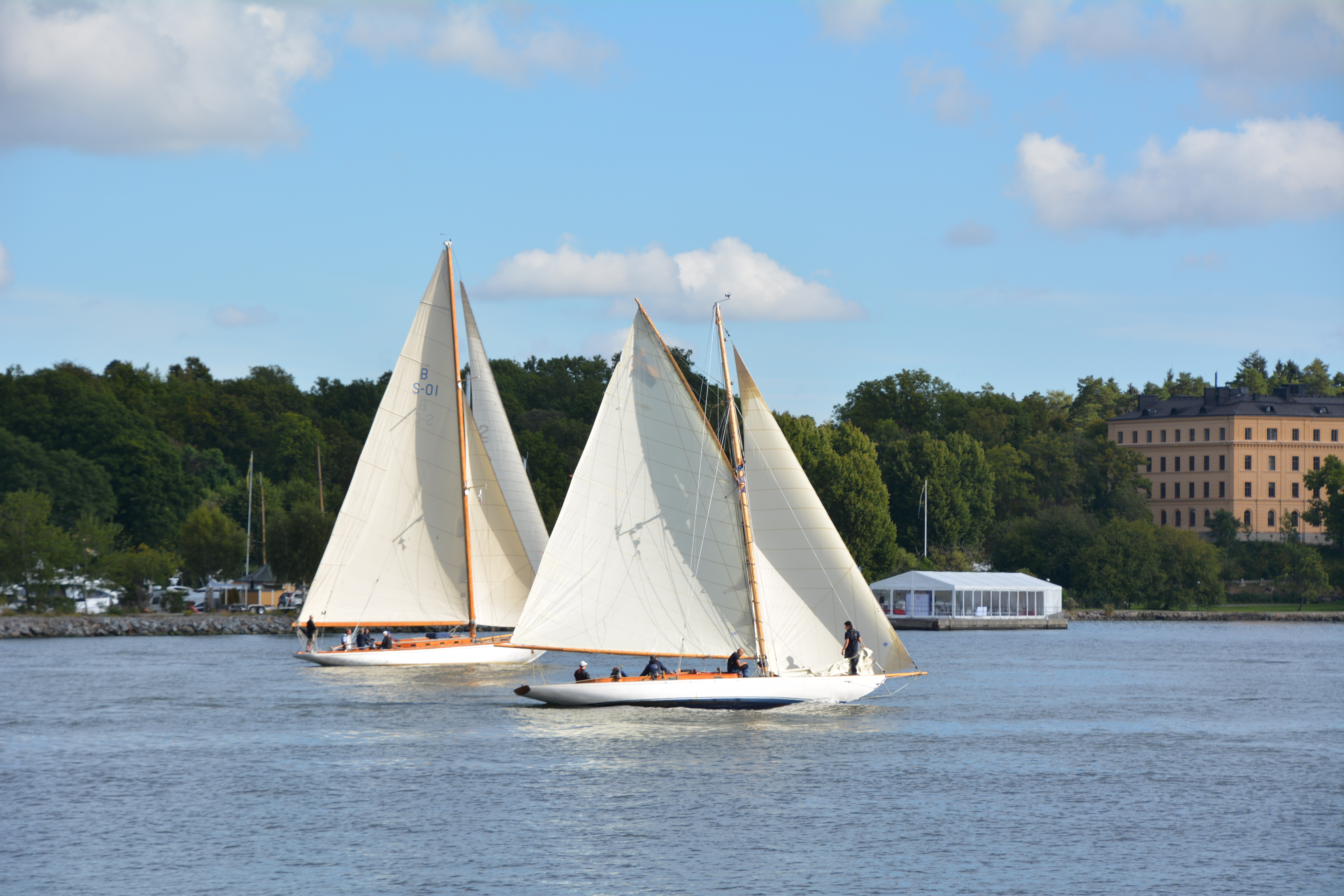 Beatrice Aurore och gaffelriggad segelbåt utanför Manila på Södra Djurgården i Stockholm. Beatrice Aurore är en skärgårdskryssare SK 150, byggd som EBE 1920 av August Plym på Neglingevarvet i Saltsjöbaden, har tidigare också haft namnet Ebella